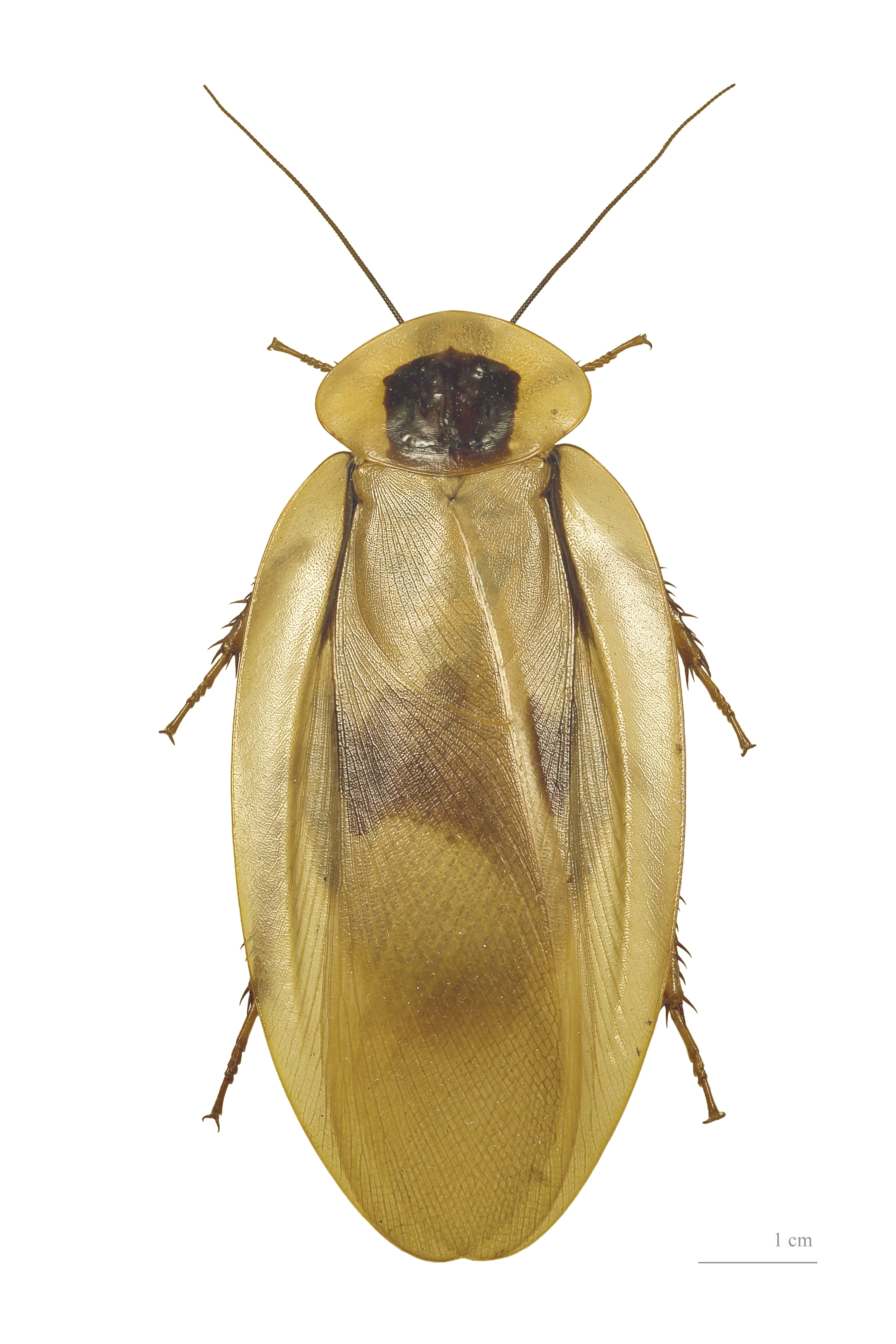 ♀ - Dorsal side - Face dorsale Locality: Kaw Trail, French Guiana.